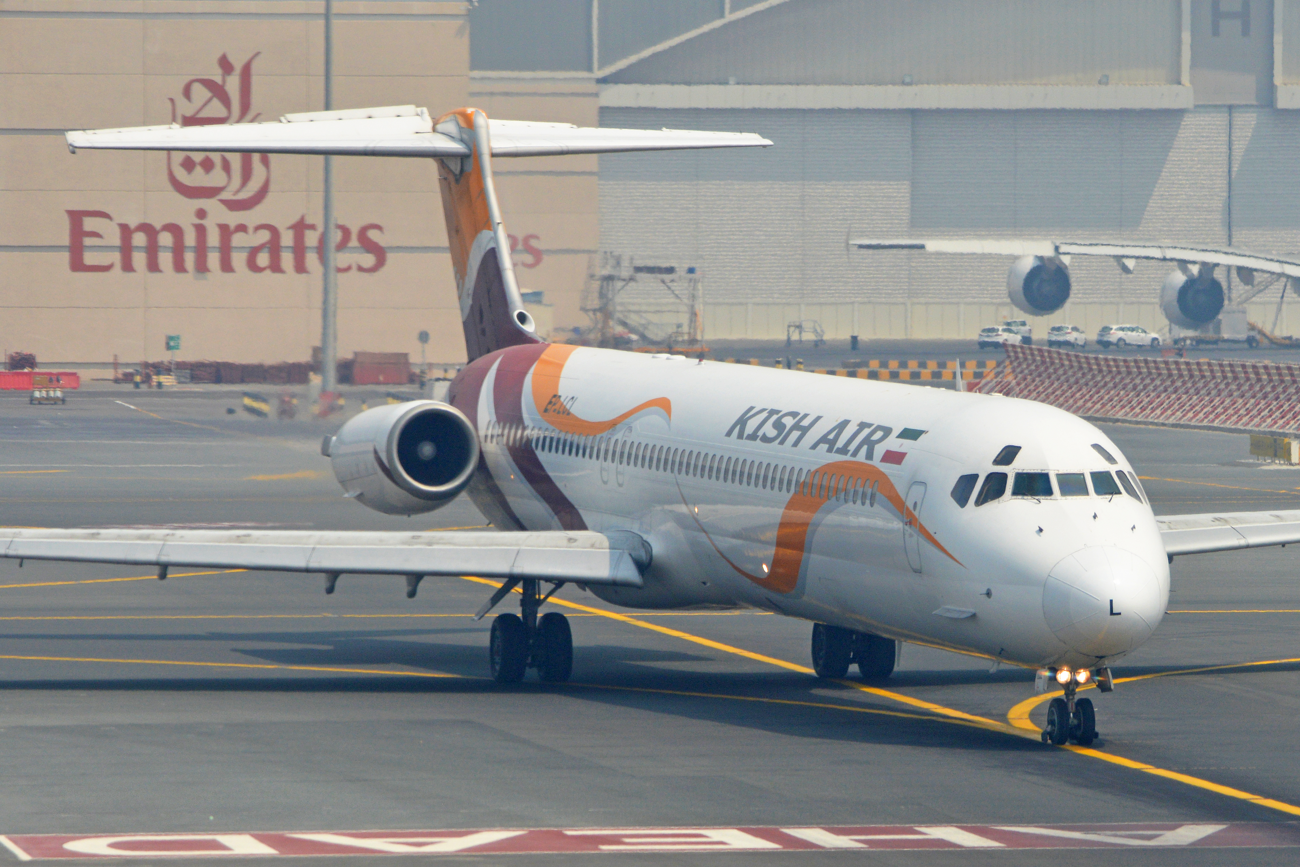 c/n 53229, l/n 2105. Built 1995 as 'I-DATL' for Alitalia who operated it until 2010. It then passed briefly to Bulgarian Air Charter as 'LZ-LDL' before joining Iranian airline Kish Air as 'EK-82229', later reregistered as 'EP-LCL'. Seen waiting to line-up to depart Dubai International Airport (DXB), United Arab Emirates. 17-9-2015. Taken from my seat in Virgin Atlantic A330 'G-VINE'.